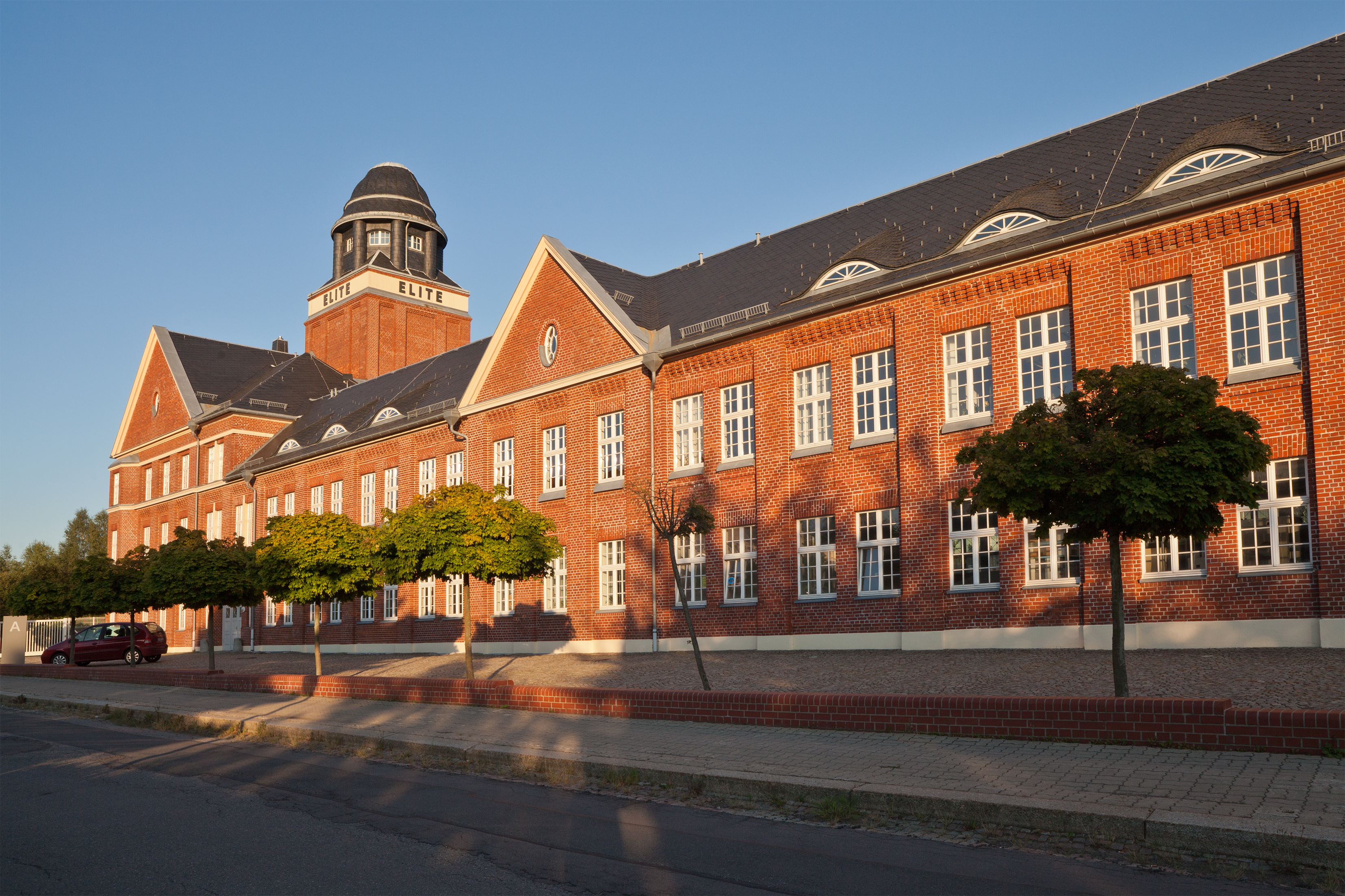 Elite-Gewerbepark (industrial estate) in Brand-Erbisdorf